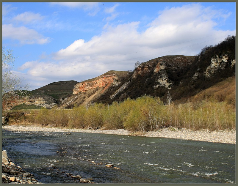 River Zelenchuk